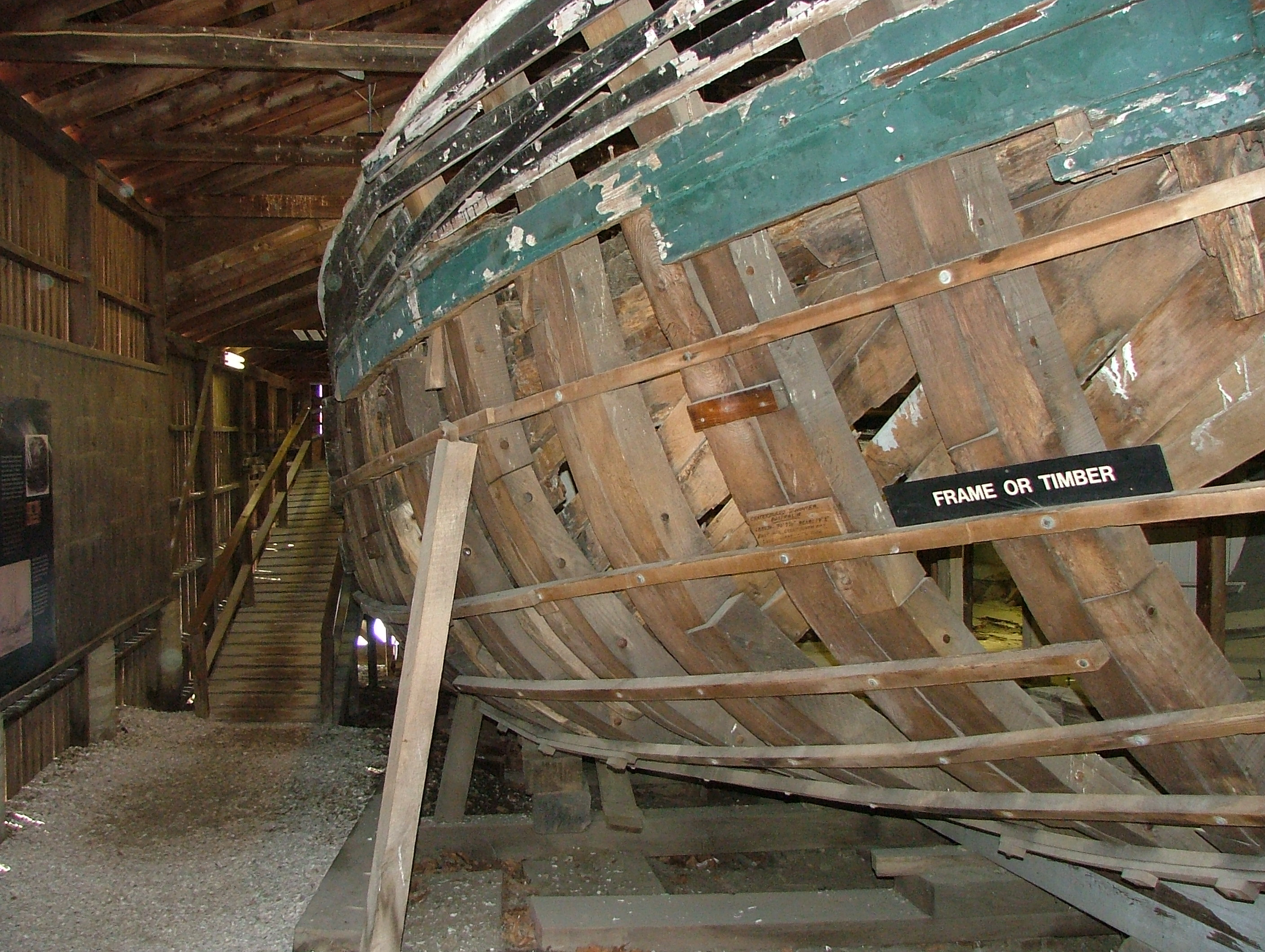 Remains of Schooner Australia, Mystic Seaport, Conneceticut